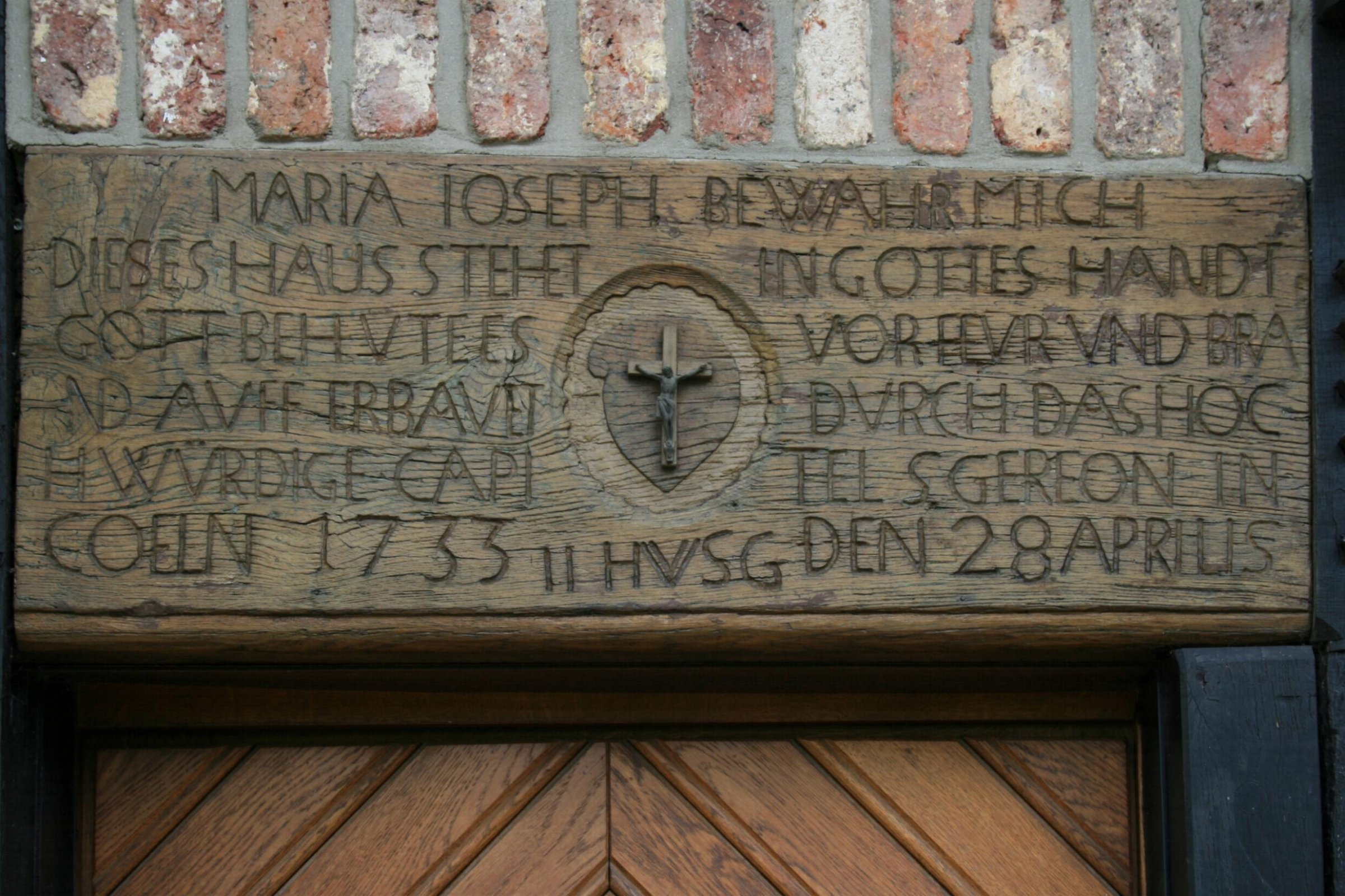 Cultural heritage monument No. A 029 in Mönchengladbach